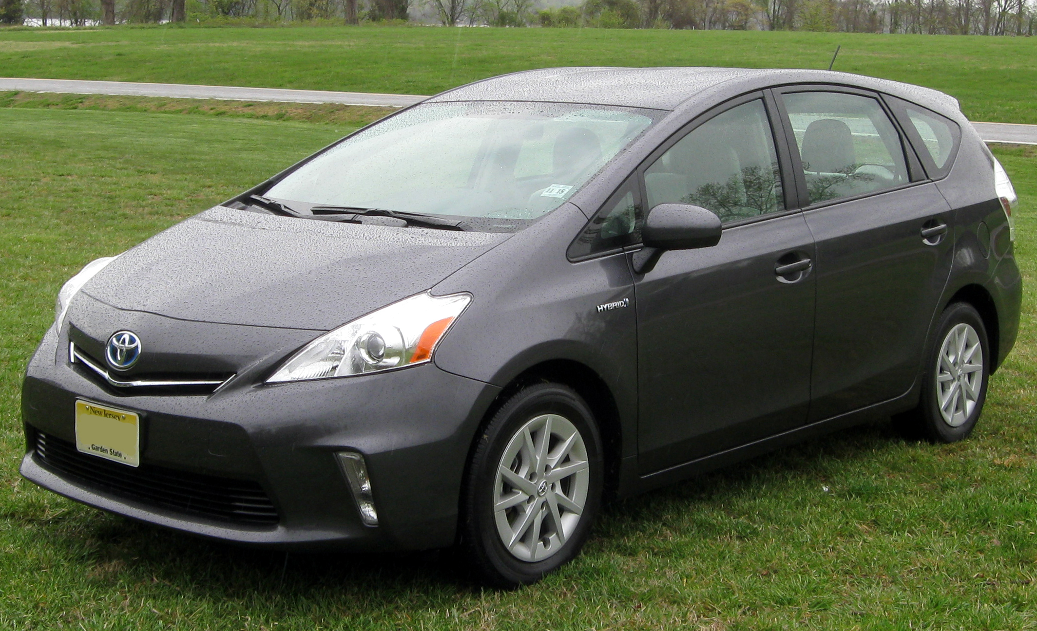 2012 Toyota Prius v photographed in Marshall Hall, Maryland, USA.